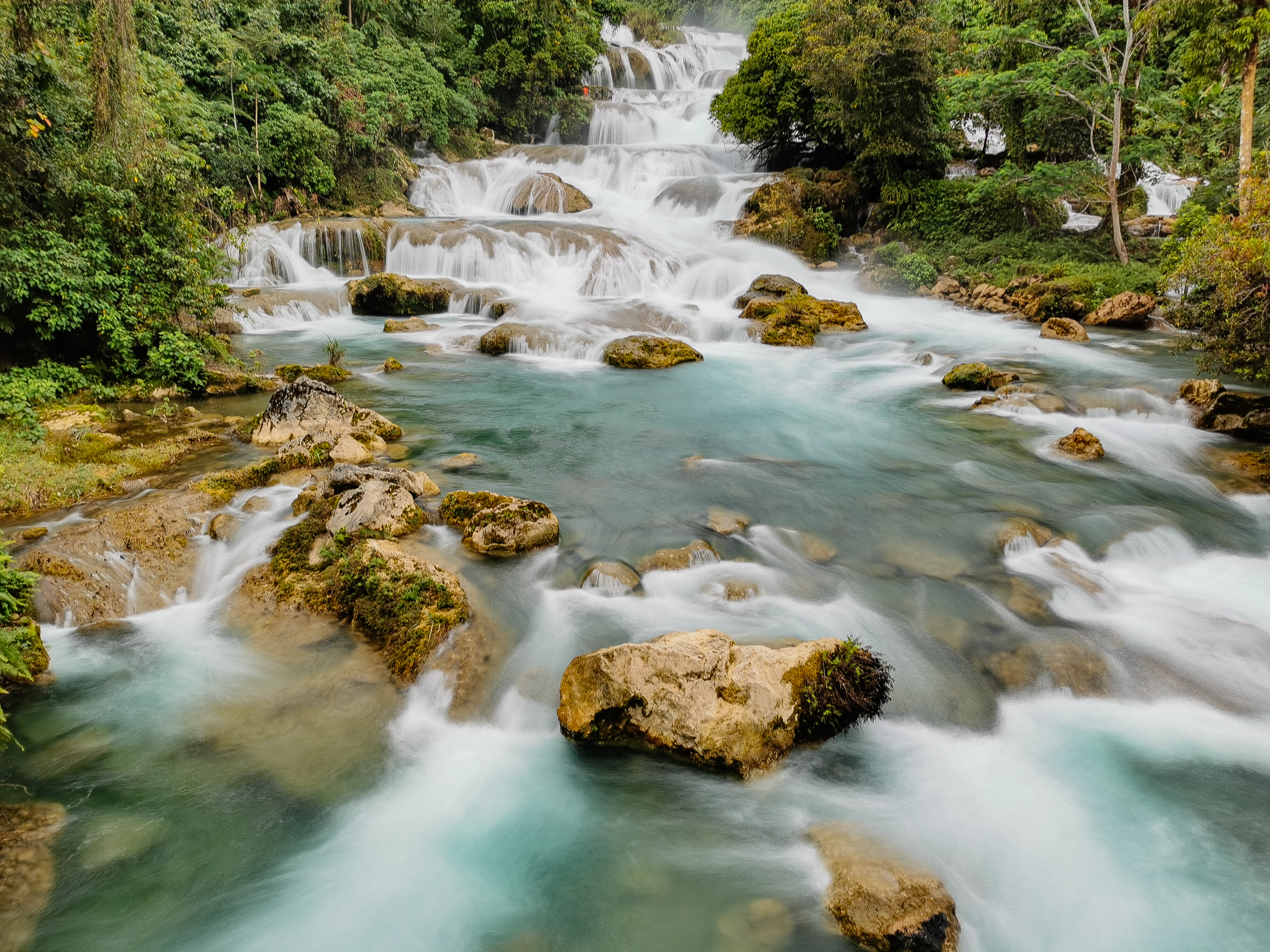 Stairway